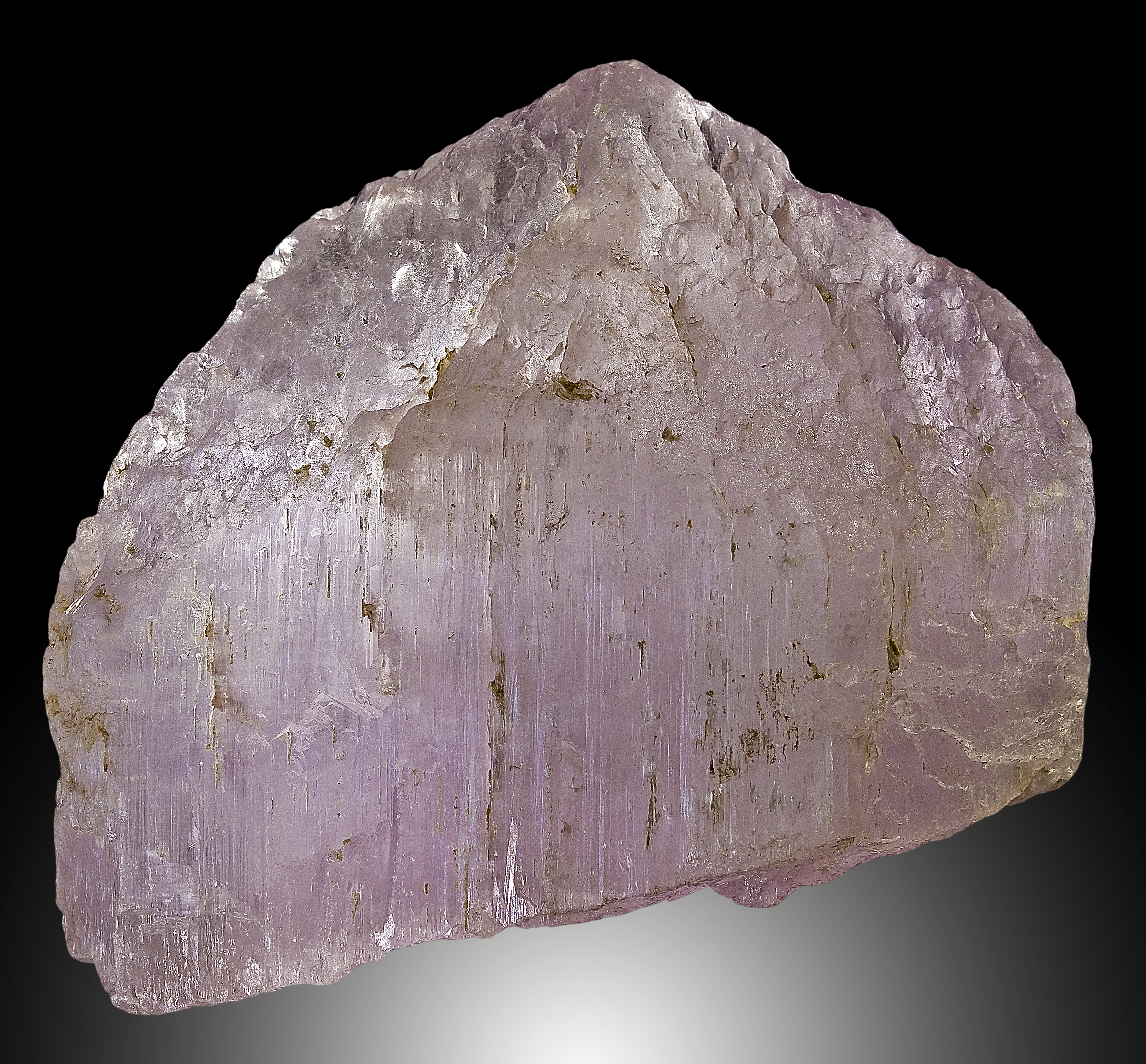 Kunzite, variety of Spodumene Locality : Konar Valley (Kunar Valley), Konar (Kunar; Konarh; Konarha; Nuristan) Province, Afghanistan Size : 13.5x11.8cm